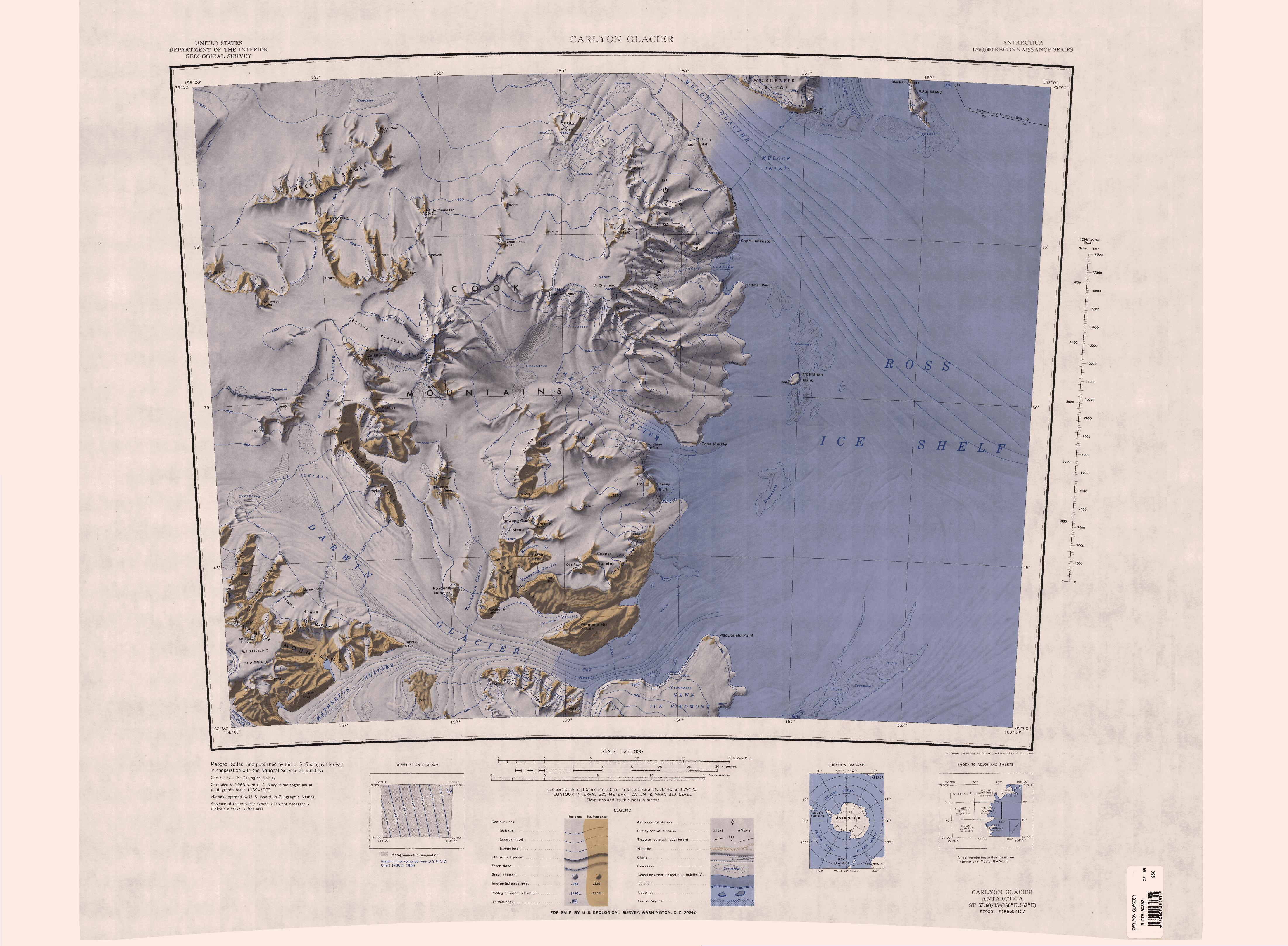 Map of Antarctica by the United States Antarctic Resource Center of the US Geological Society.